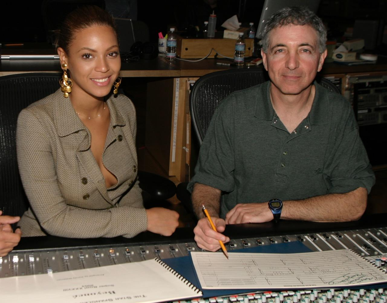 Beyonce at Warner Bros. Studios recording Randy Waldman's arrangement of the National Anthem for 2004 Super Bowl XXXVIII.